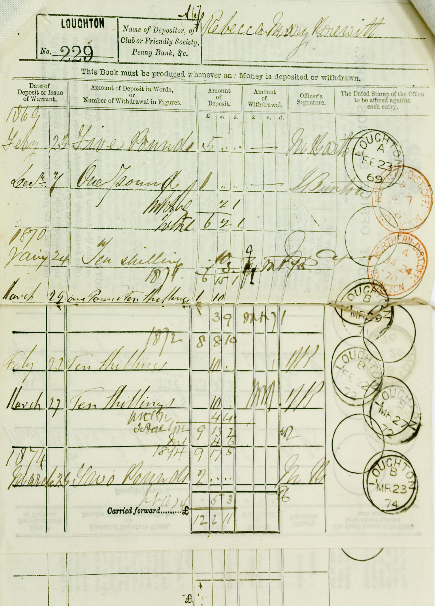 Scan of the first entries of a Post Office Savings Bank deposit book from 1869, later known as National Savings and Investments. Issued in Loughton, but probably similar to deposit books issued by Post Office Savings Bank throughout the UK.